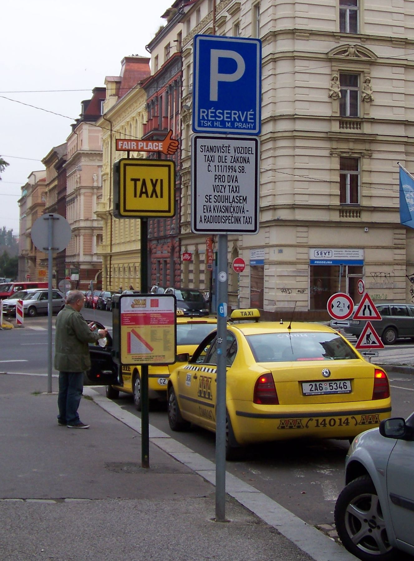 Smíchov, Prague, the Czech Republic. Kinských Square, a taxicab stand.